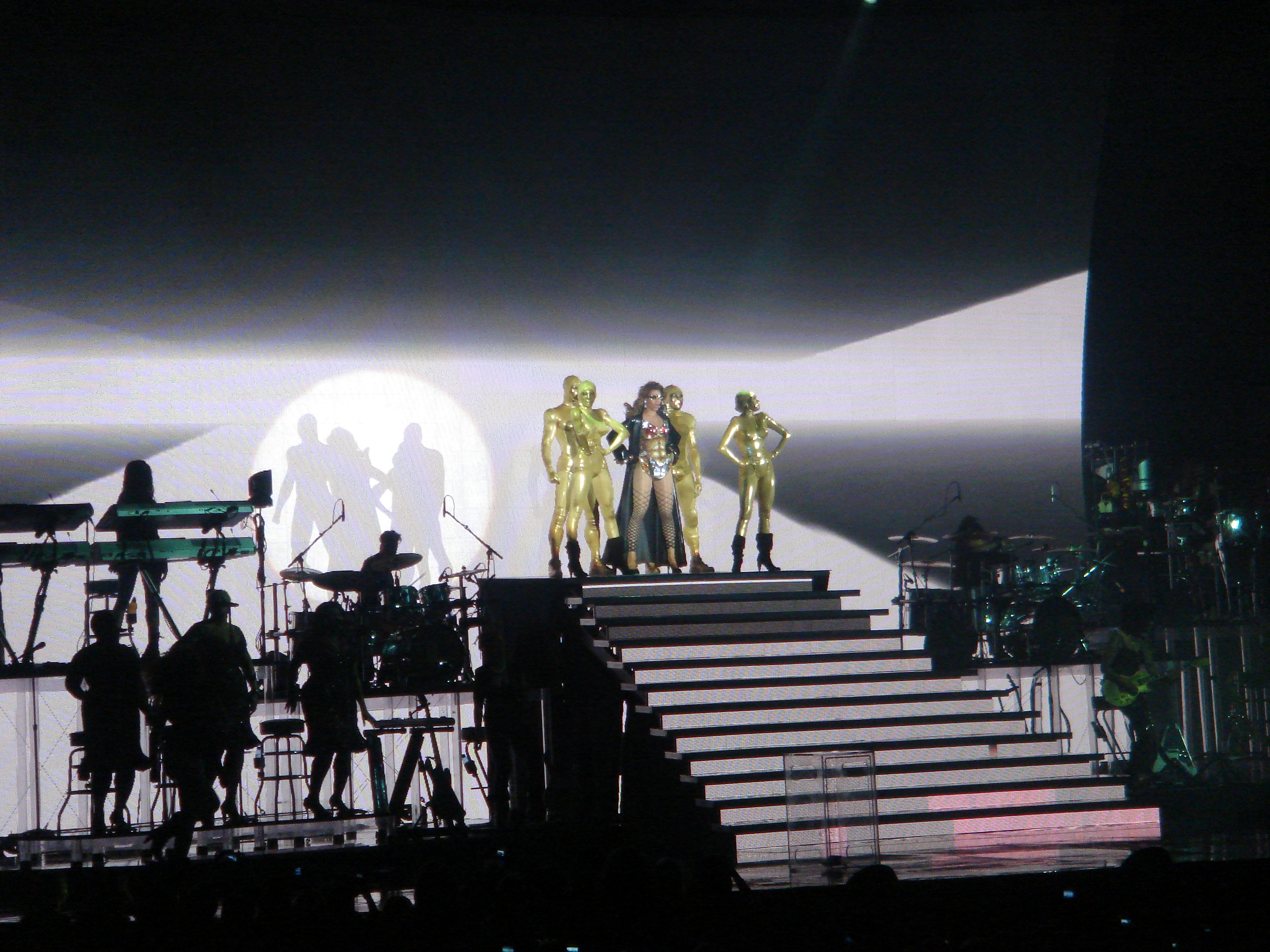 Beyonce I am... Tour 2009 Live in Berlin